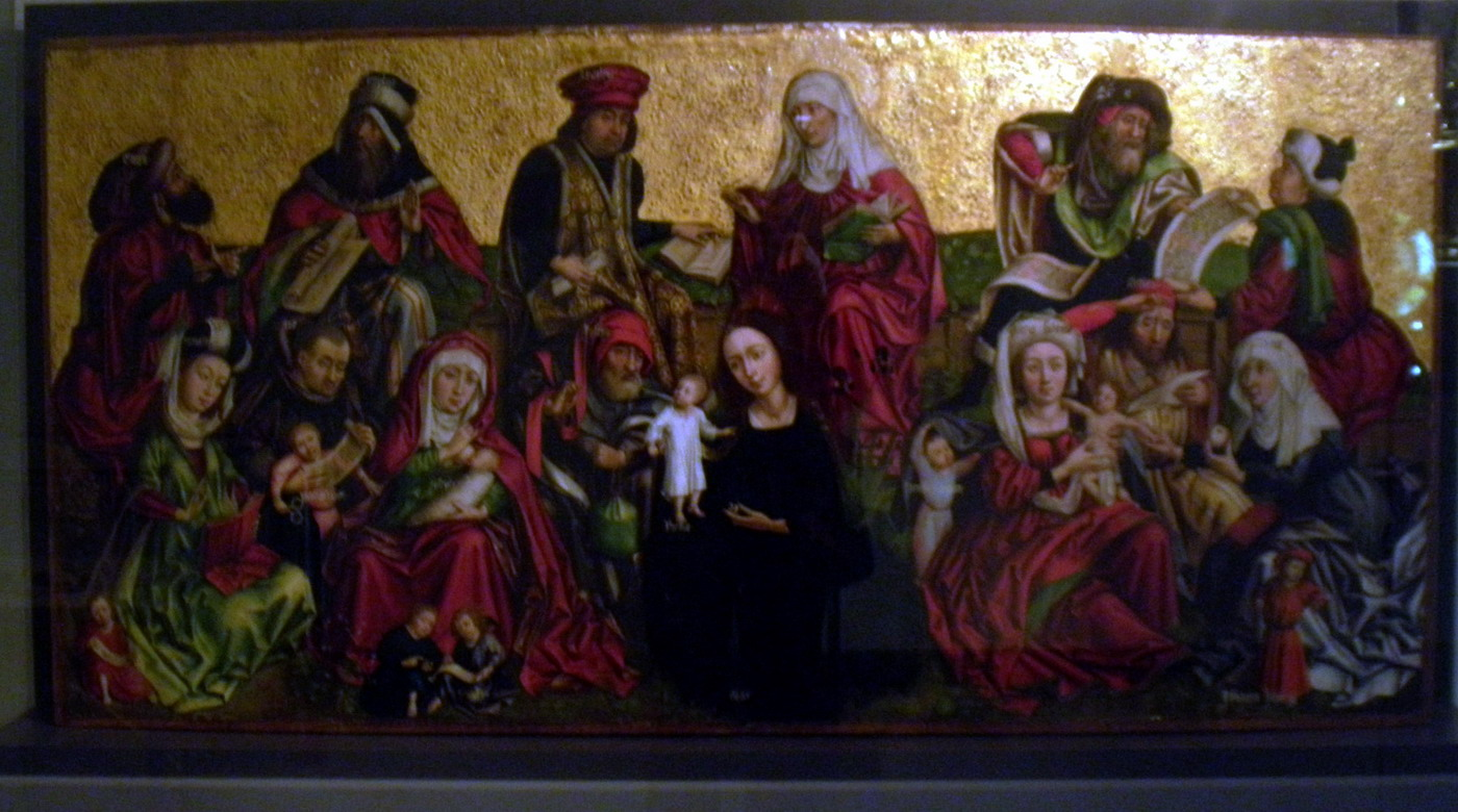 Saint Anne and her family, unknown artist, Southern Netherlandish, 16th c.(?). The painting shows the extended family of Saint Anne, Jesus' grandmother, whose sister's great-grandson, according to legend, was Saint Servatius. Collection: Treasury of the Basilica of Saint Servatius, Maastricht, Netherlands